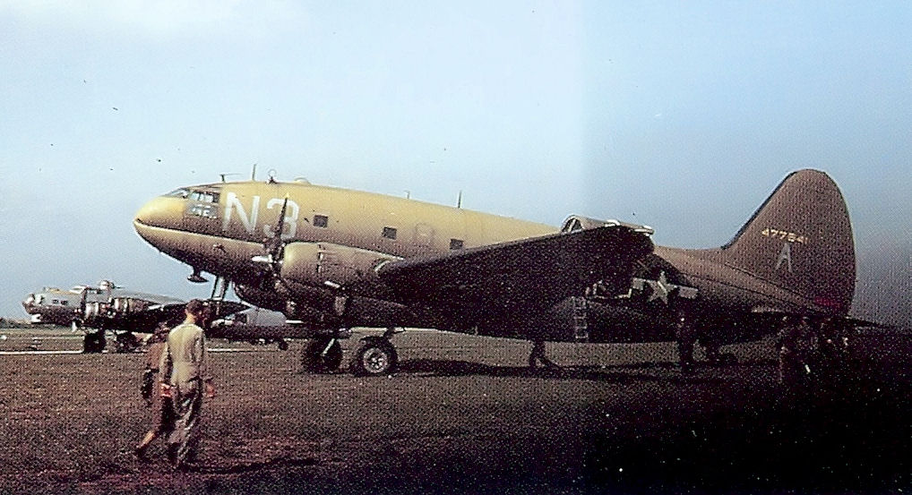 47th Troop Carrier Squadron Curtiss C-46D-10-CU Commando 44-77541, April 1945, Achiet Airfield (B-54), France. Aircraft damaged and w/o in an accident shortly afterwards in April 1945.